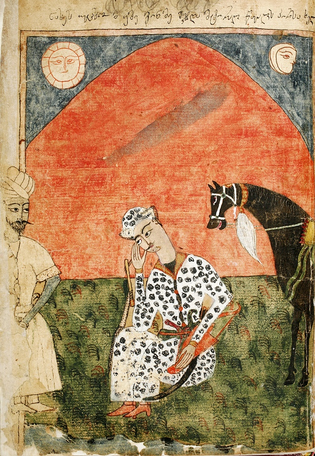 "naxes ucxo mokme vinme...". A miniature by Mamuka Tavakalashvili from the manuscript of Shota Rustaveli's "Knight in the Panther's Skin". H599. 15v. National Center of Manuscripts, Tbilisi, Georgia